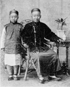 Jews of K'ai-Fun-Foo (Kaifeng Subprefecture), China. A picture from the public domain Jewish Encyclopedia. Originally downloaded from [1]